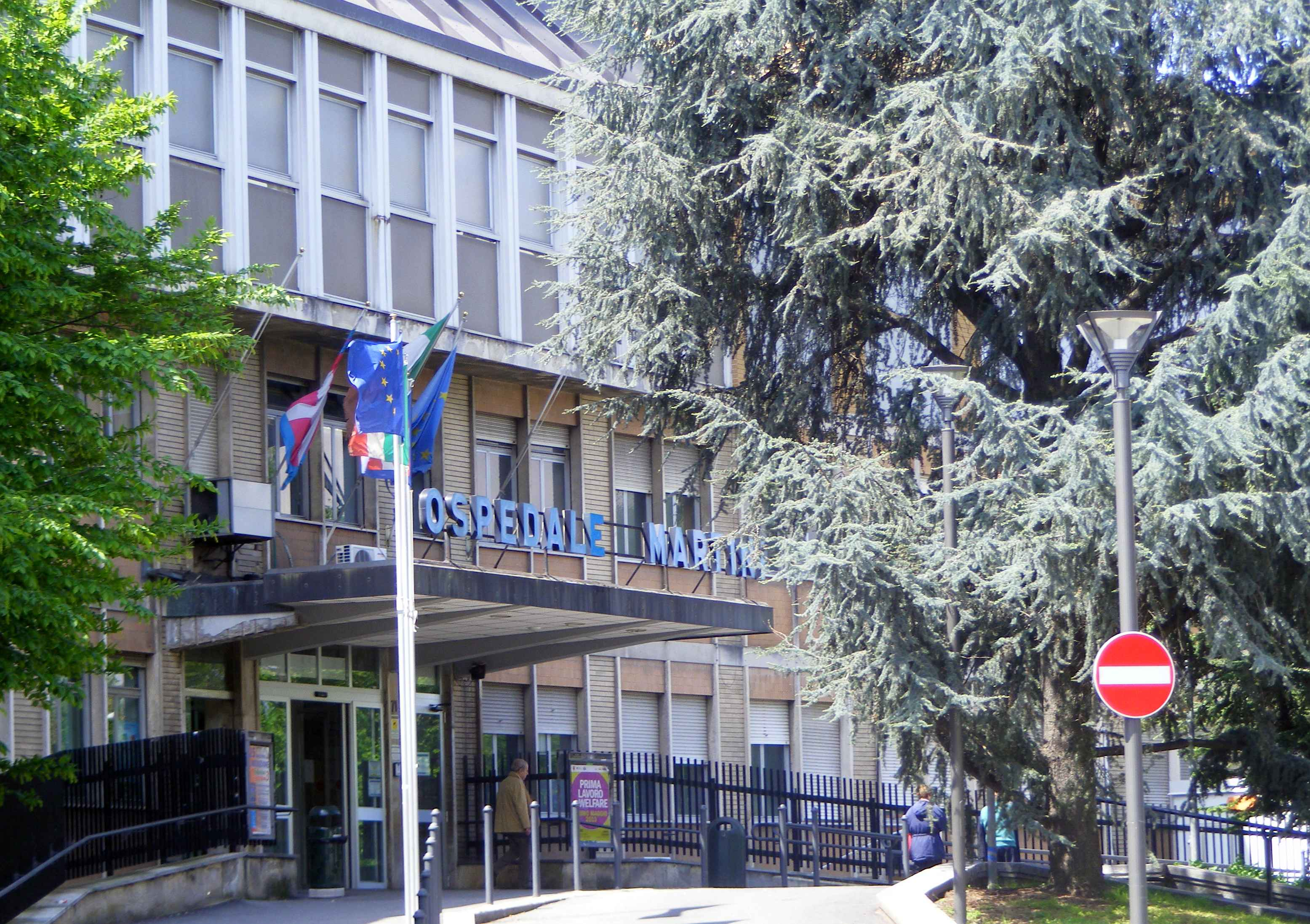 Turin, quartiere Pozzo Strada: Martini hospital